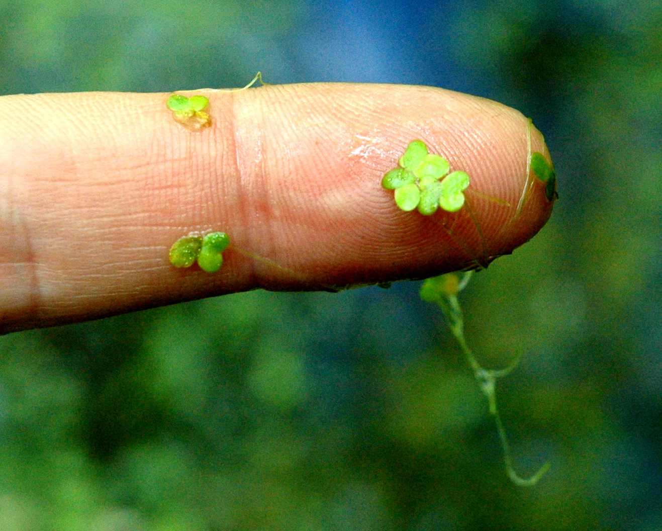 Lemna minor on a finger, summer 2006. My own (Kjetil Lenes) photo.